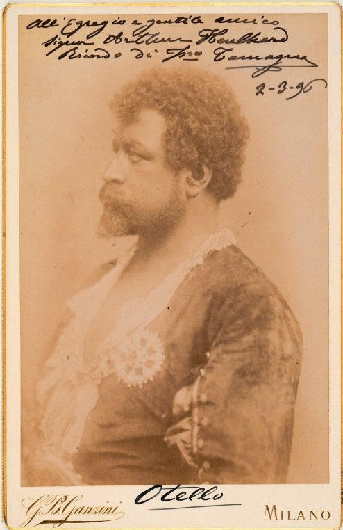 Francesco Tamagno dans le rôle d'Otello / G. B. Ganzini